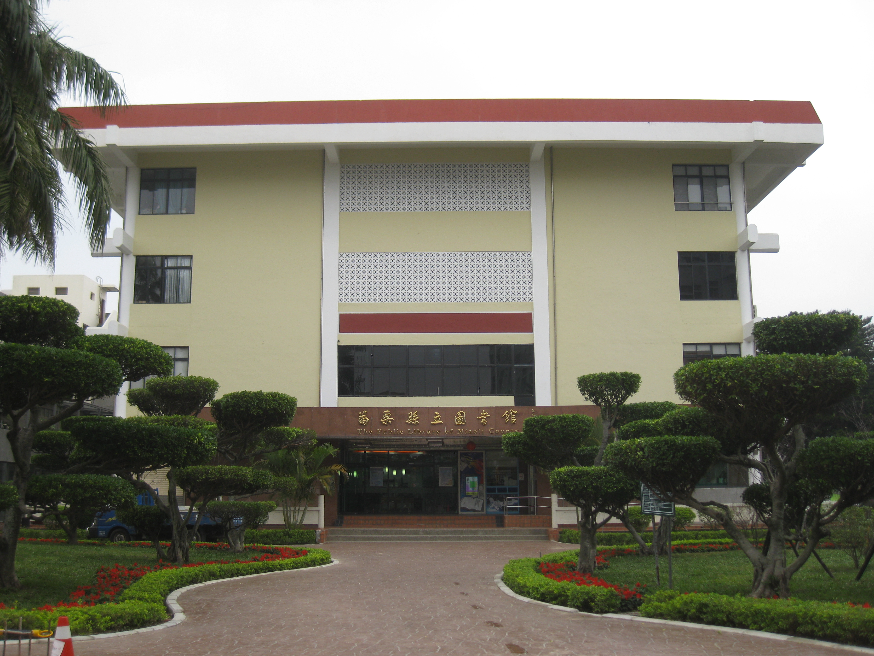 The Public Library of Miaoli County